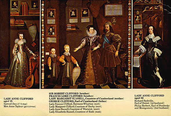 Portrait of the family of Anne Clifford. Includes her brothers, Francis and Sir Robert. As well as her father George Clifford and mother Margaret Russell; Abbot Hall Art Gallery, Kendal, Cumbria, UK. The Great Picture, a huge triptych measuring 8ft 5" high and 16ft 2" wide, commissioned in 1646 by Anne Clifford, attributed to Jan van Belcamp (1610-1653), formerly hanging in Appleby Castle now displayed in the Abbot Hall Art Gallery, Kendal, Cumbria. It depicts Anne as a girl at left and as a mature woman at right. The central panel shows her parents and young brothers. The painting is replete with significant elements referring to her life and to her succession to her paternal inheritance, gained after a lengthy legal dispute[1]